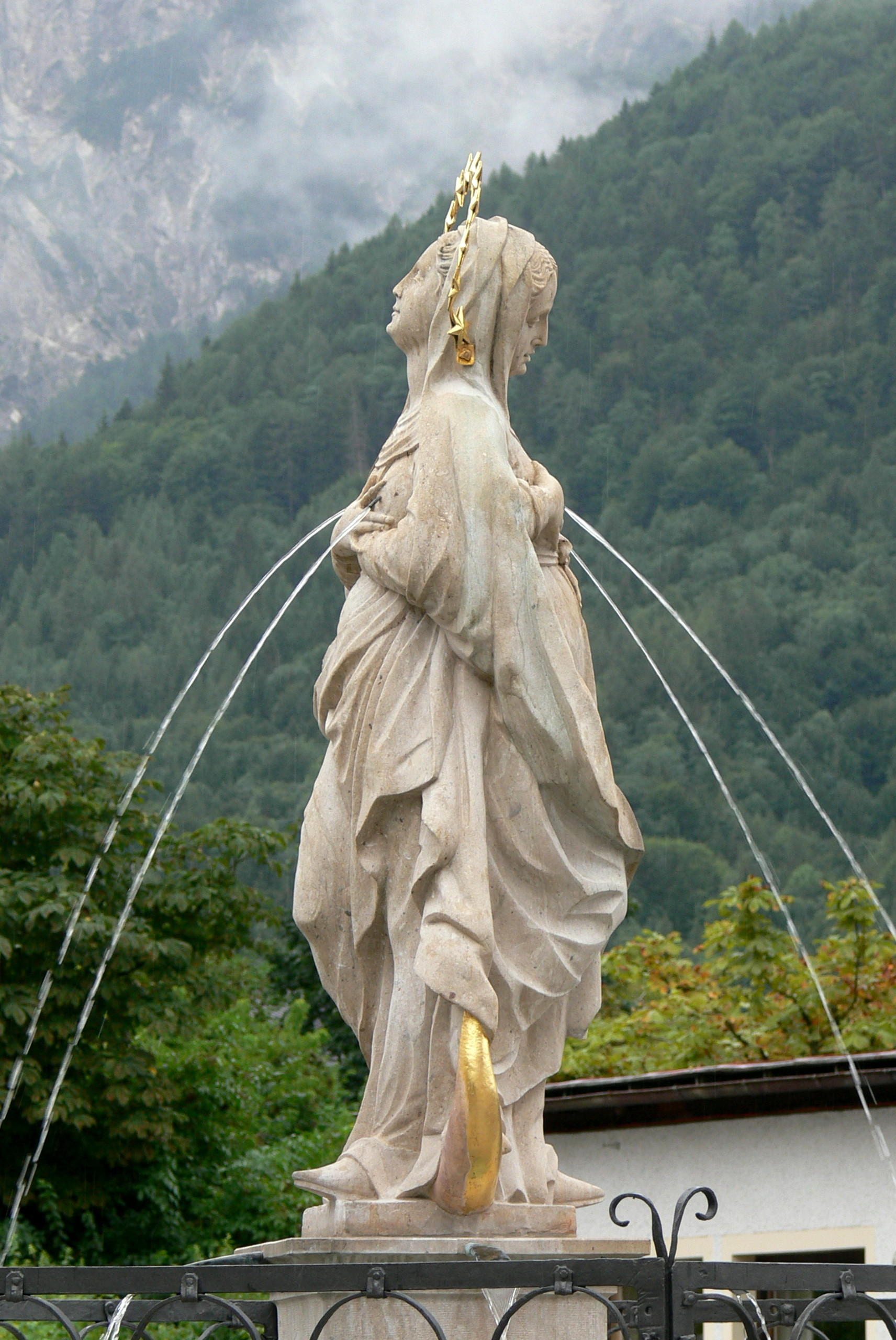 Großgmain (Salzburg state). Fountain with double-figured Virgin Mary dressed as godess Diana, created by Johann Schwaiger in 1693.